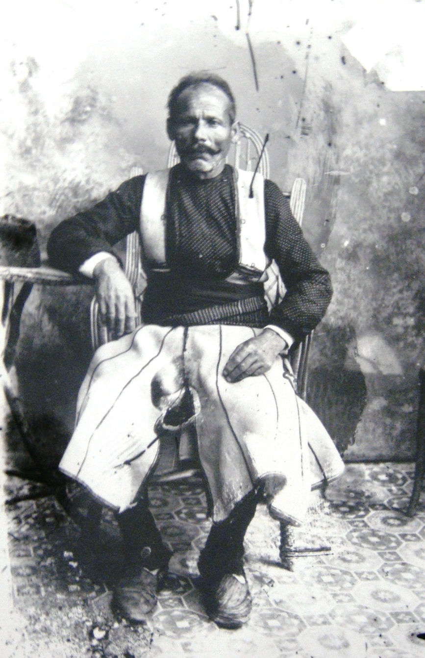 Mason from village Smilevo, dressed in folklore costume, recorded in the studio of Manaki brothers. (Bitola, 1905) This media file is produced by Wikipedian in Residence in Category:Wikipedian in Residence at DARM in 2016.